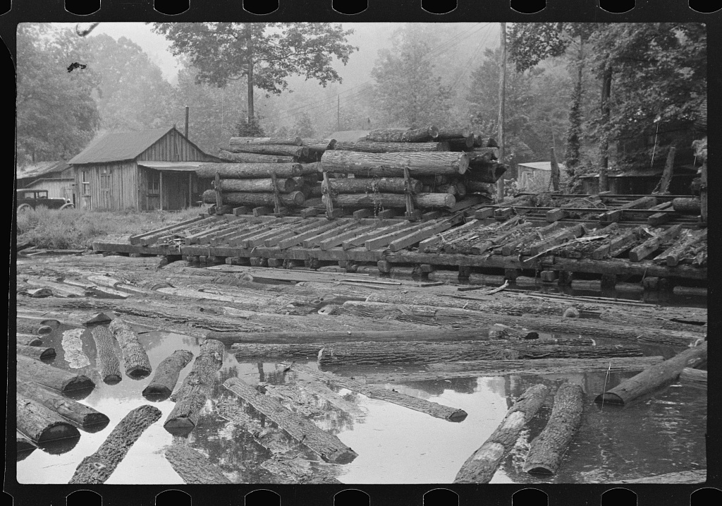 A sawmill and log-filled millpond in Erwin, West Virginia, USA, photographed by Marion Post Wolcott for the Office of War Information in 1938. Erwin is located in Preston County, a few miles west of the Maryland state line.